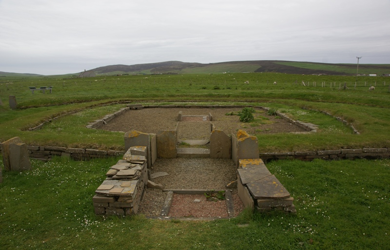 Barnhouse Settlement, Mainland, Orkney, Scotland. Structure 8 (within the wall).